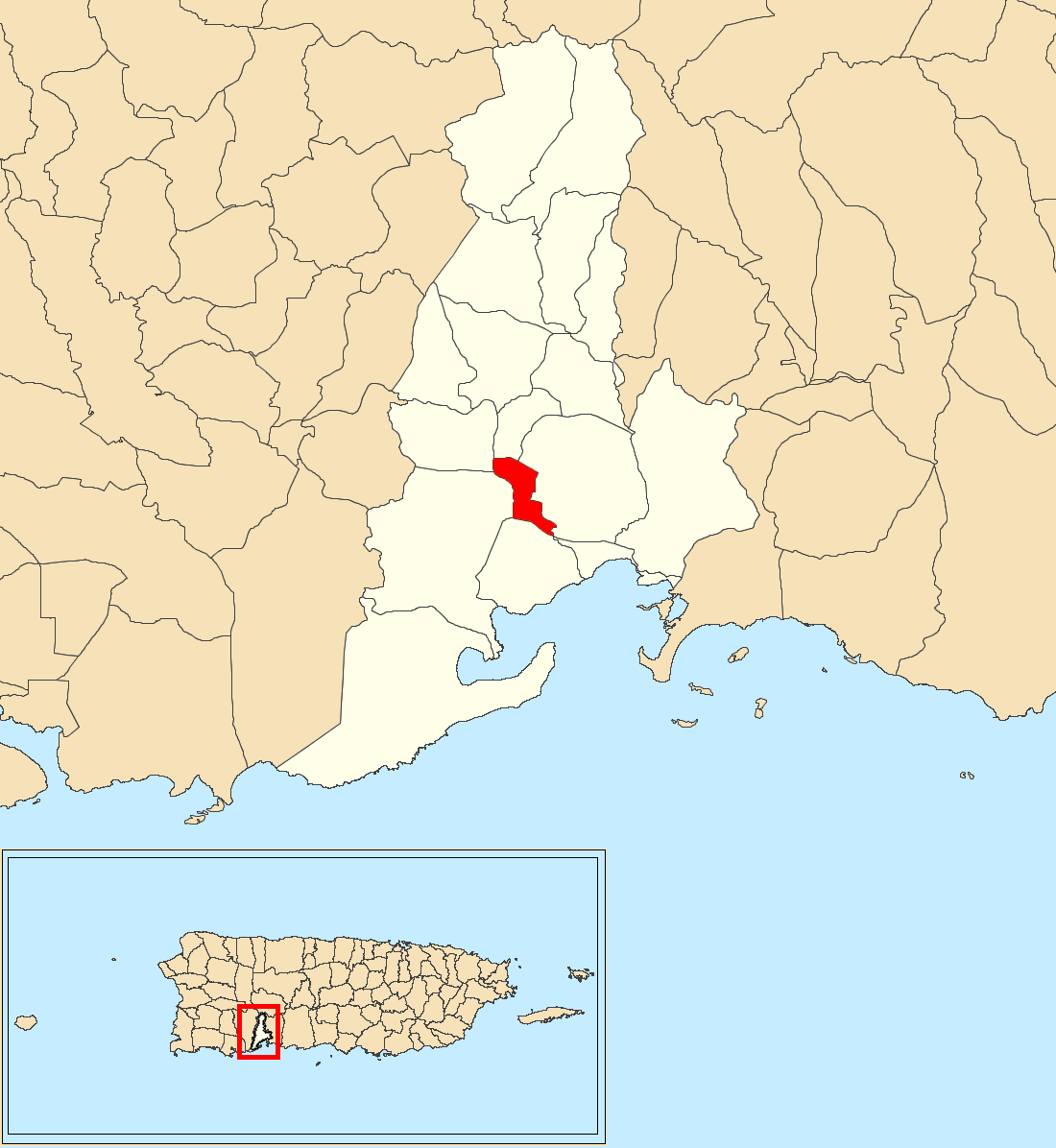 Guayanilla barrio-pueblo, Guayanilla, Puerto Rico locator map